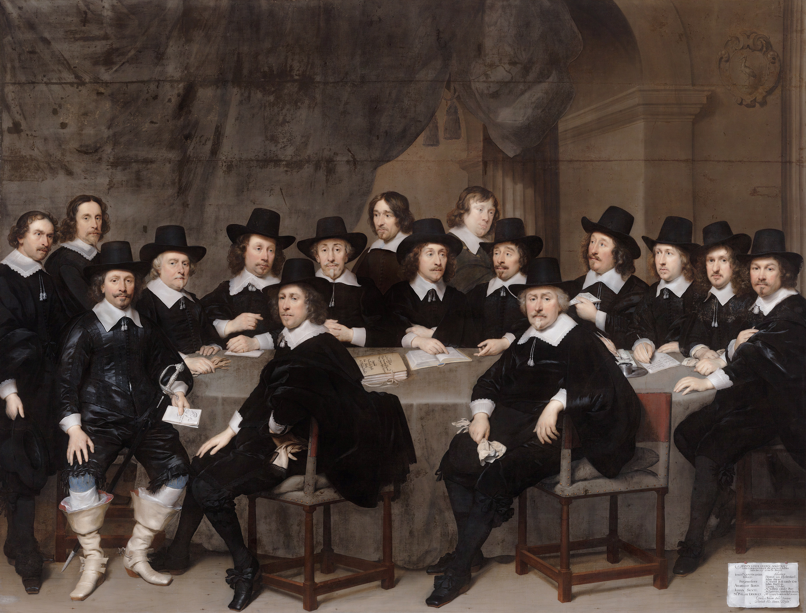 The municipality of The Hague in 1646, 1647 oil on canvas 283.5 x 373.5 cm inscribed b.r.: NAMEN VANDE HEEREN MAGISTRAET / VAN S'GRAVEN-HAGHE, die geregeert hebben / inden jare xvjc zeven . en veertigh / Ionch.r Qvintiin de Veer. / Bailliu. / Burgemeesteren. / Aelbrecht Bosch. / Iohan Sixcti. / M.r Philips Doublet. / Schepenen. / Henrick van Slychtenhorst. / Johan Smout. / M.r Henrick Both vander Eem. / Iohan Doedyns. / Thomas Cletcher. / M.r Wilhelm vander Does. / M.r Corn: van Zoutelande Pensionaris. / M.r Gerard Graswinckel Secretaris. / Cornelis Naggers Subs.t Secretaris. / Barthols: van Bassen, Fabrijckm. " signed b.l.: Corn. Jonson van Ceulen fecit 1647